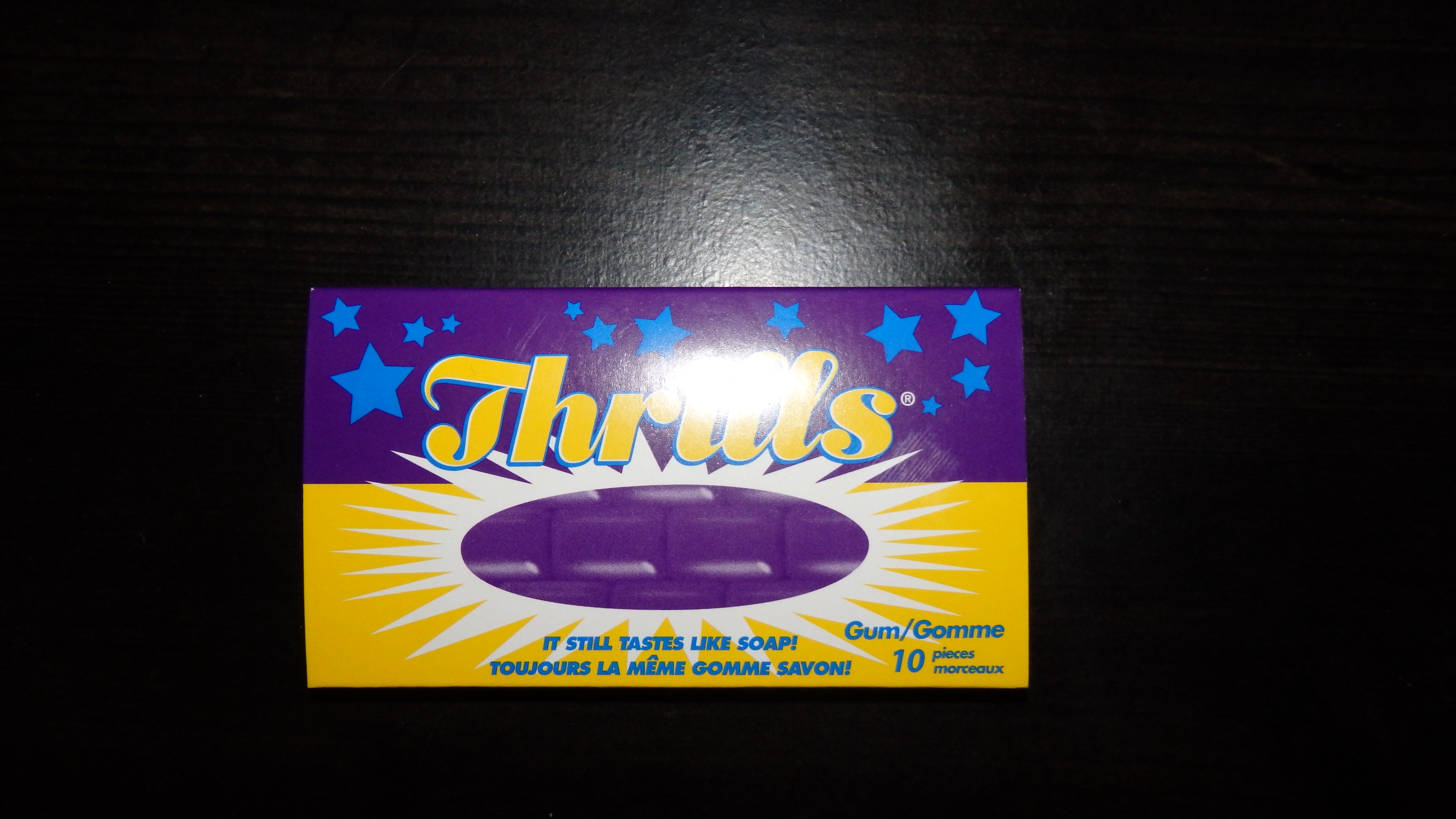 This is the current package of Thrills gum.